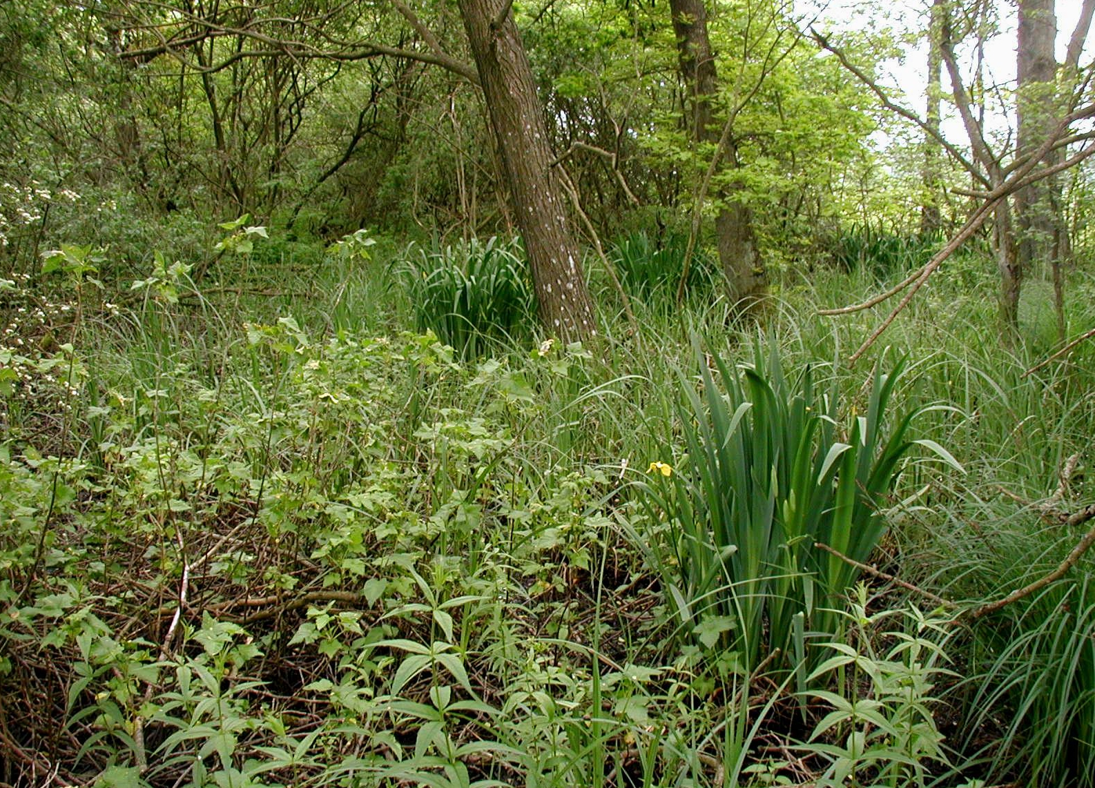 A typical Alnus glutinosa habitat with flowering Iris pseudacorus.